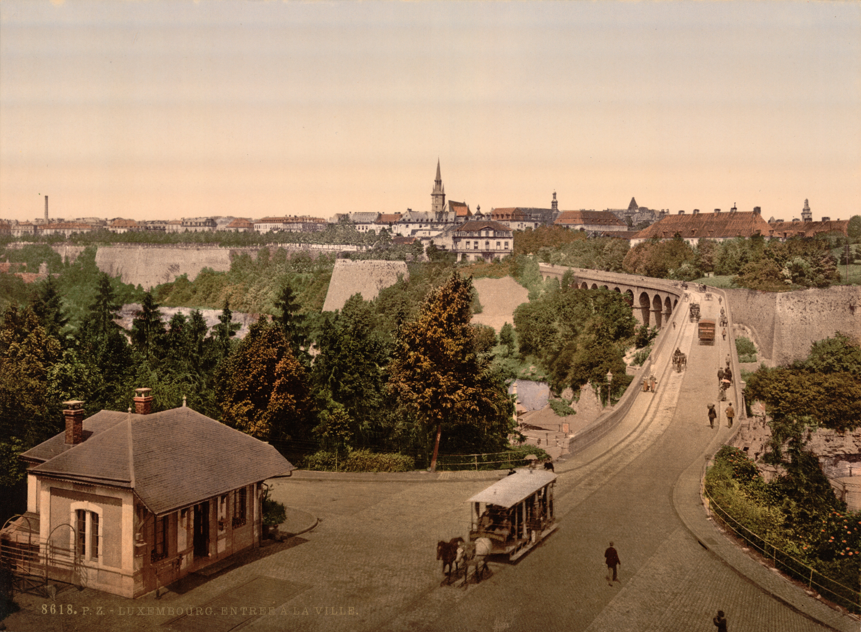 Luxembourg City: The Passerelle, also known as the Luxembourg Viaduct. In the background: the centre of the city. Description for Library of Congress: Title: [Entrance to the town, Luxembourg] Date Created/Published: [between ca. 1890 and ca. 1900]. Medium: 1 photomechanical print : photochrom, color. Part of: Cityscape views of Luxembourg Reproduction Number: LC-DIG-ppmsc-06086 (digital file from original) Rights Advisory: No known restrictions on reproduction. Call Number: LOT 13429, no. 002 [item] [P&P] Repository: Library of Congress Prints and Photographs Division Washington, D.C. 20540 USA Notes: Title from the Detroit Publishing Co., Catalogue J foreign section, Detroit, Mich. : Detroit Publishing Company, 1905. Print no. "8618". Forms part of: Cityscape views of Luxembourg in the Photochrom print collection. Format: Photochrom prints--Color--1890-1900. Collections: Photochrom Prints